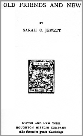 The Title page of